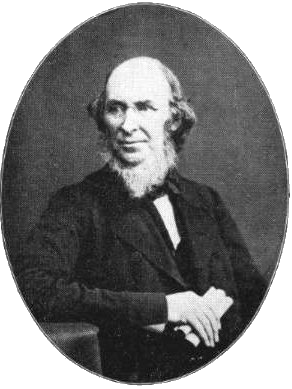 Portrait of William Henry Black (1808–1872). Possibly the lone portrait of him referred to in the ODNB: "engraving, 1856, TNA: PRO, 8/56". Certainly created before 1872.